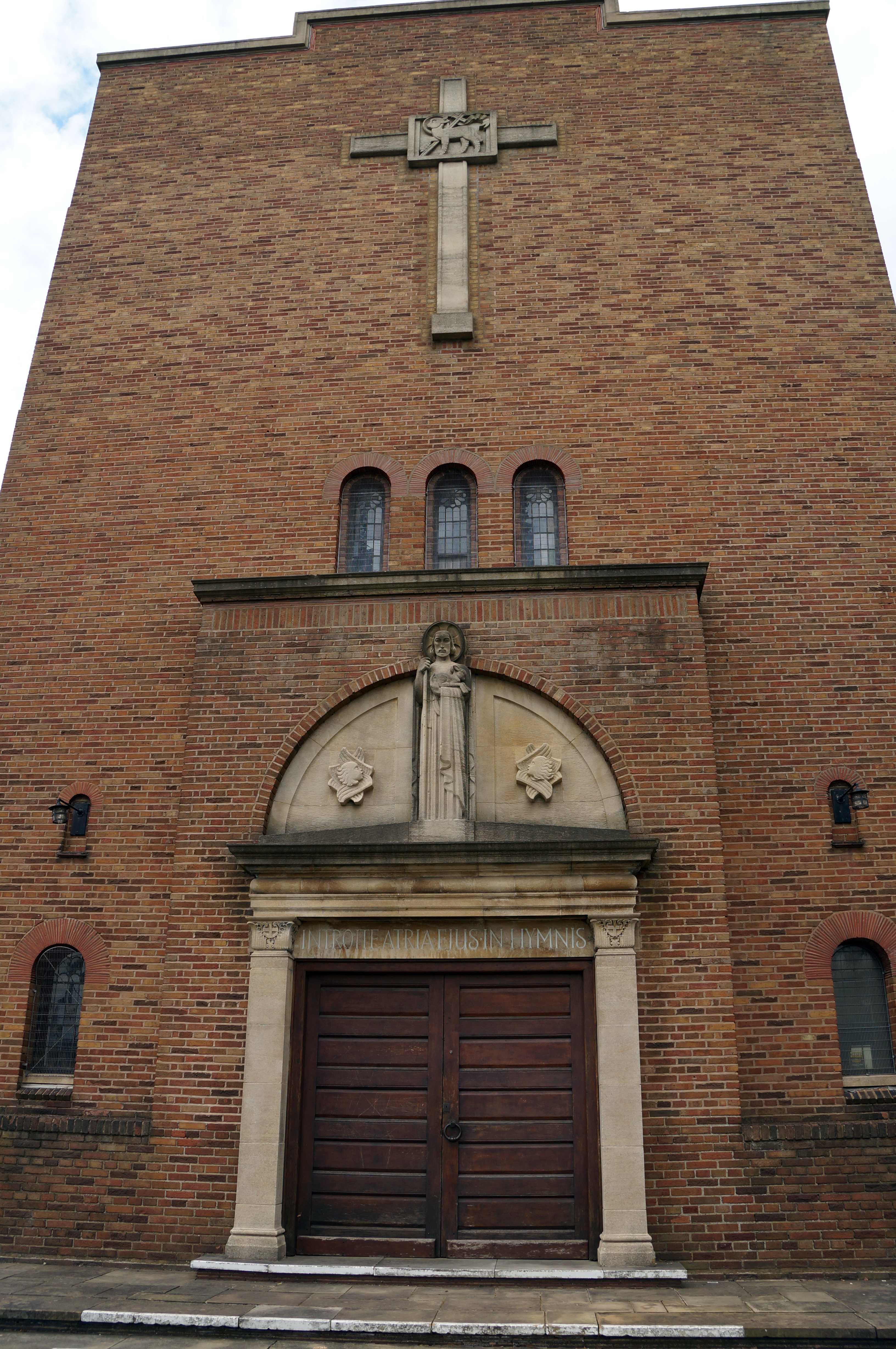 South-facing wall (what is architecturally the west wall as the church faces north at the chancel end) of Christ Church, Burney Lane, Ward End, Birmingham, England by architect Holland W. Hobbiss and local sculptor William Bloye, c1935. Contrast modified in Photoshop.